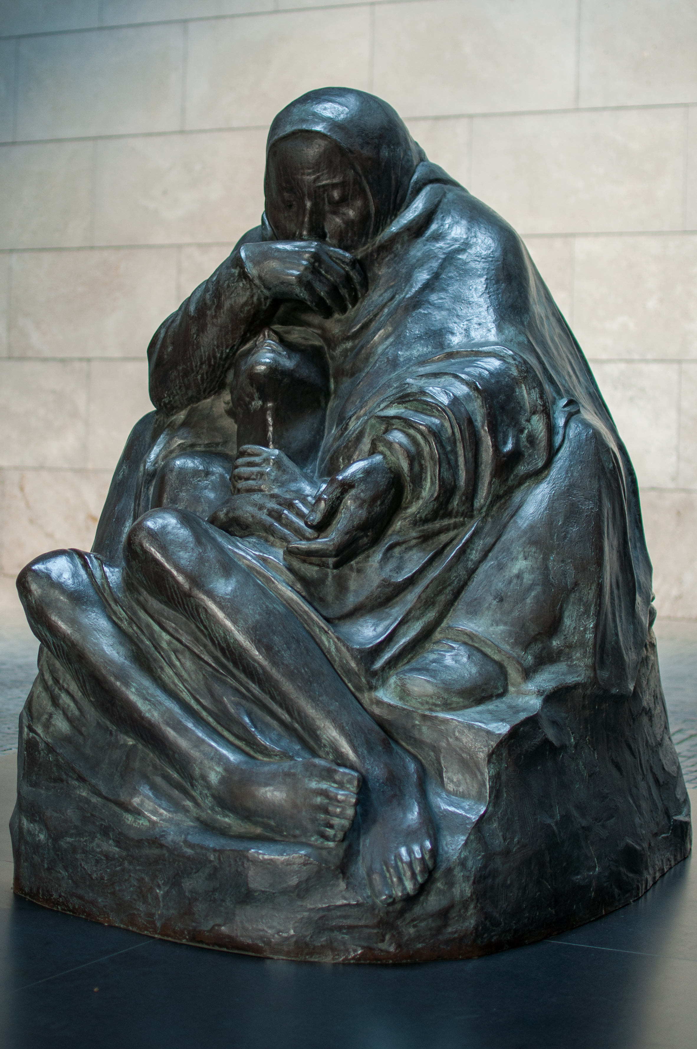 Sculpture Mother with her Dead Son – centerpiece of what is today a memorial to "victims of war and dictatorship" – in the interior of Neue Wache. Work of Käthe Kollwitz (8 July 1867 – 22 April 1945), a German artist who worked with drawing, etching, lithography, woodcuts, painting, printmaking, and sculpture. Her most famous art cycles, including The Weavers and The Peasant War, depict the effects of poverty, hunger, and war on the working class. Despite the realism of her early works, her art is now more closely associated with Expressionism. Kollwitz was the first woman elected to the Prussian Academy of Arts.